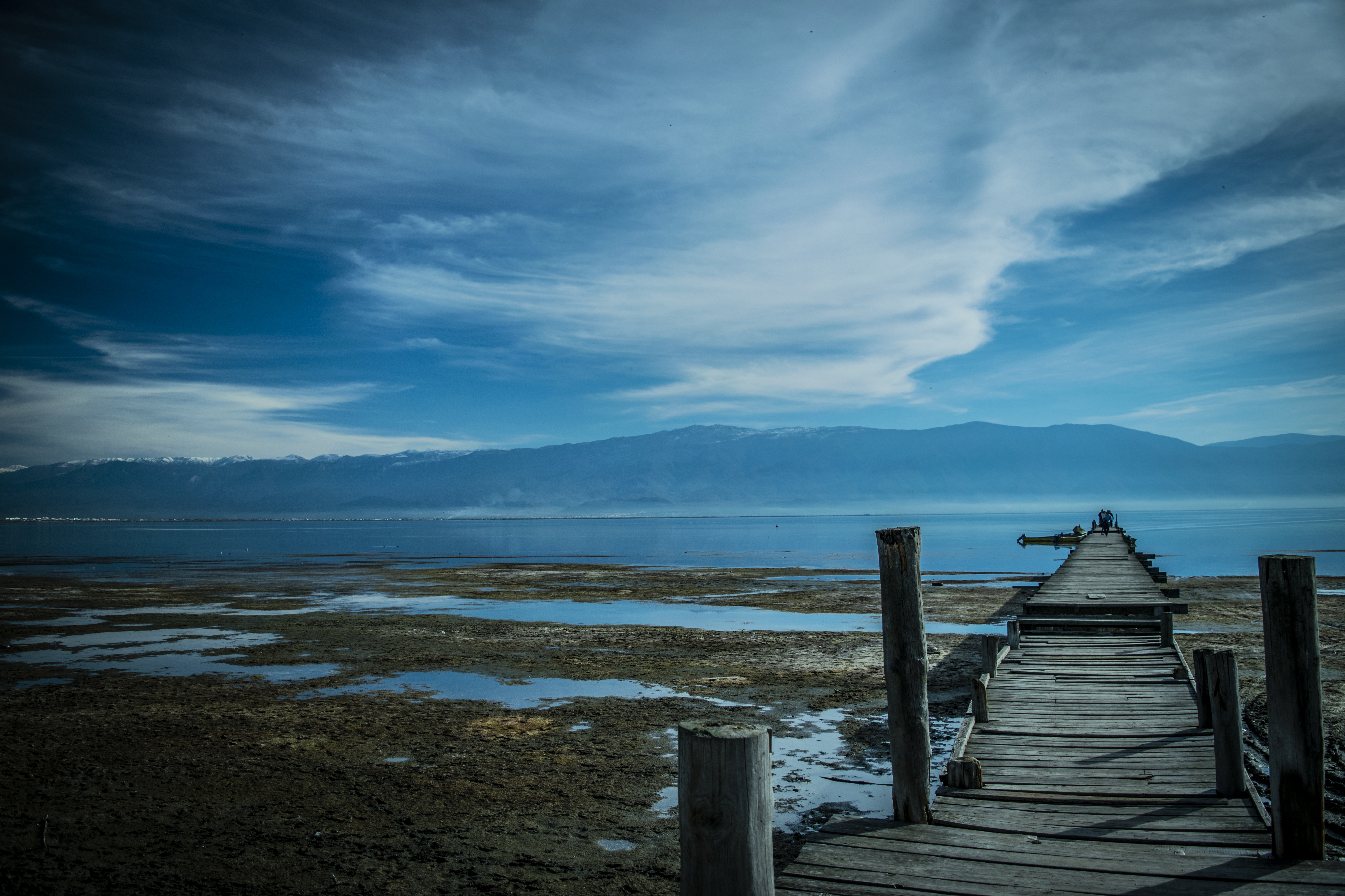 © Arvand artworks photo taken by Ali Mozhdeklanlou